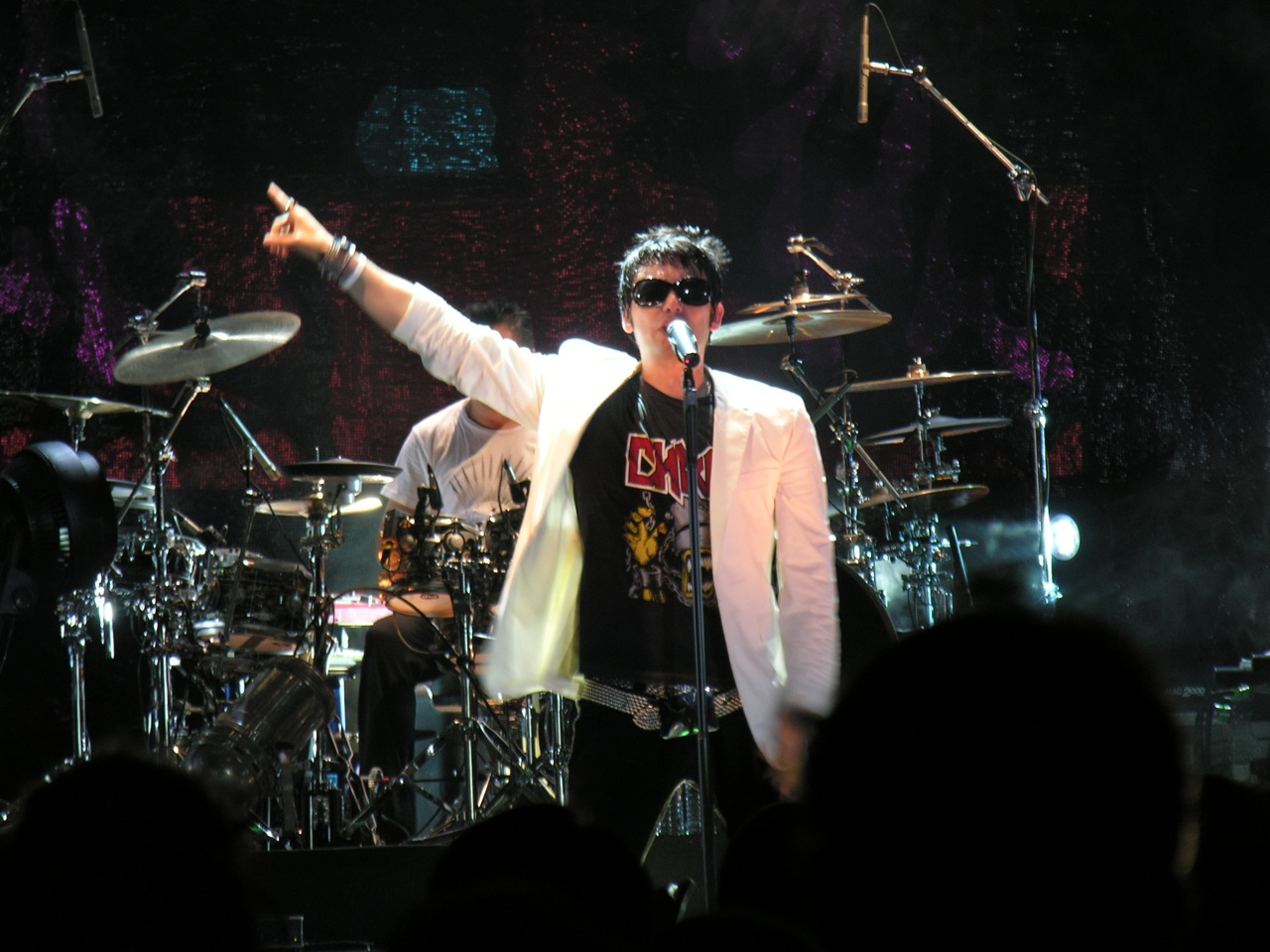 Chilean musician Beto Cuevas in a concert in Argentina.